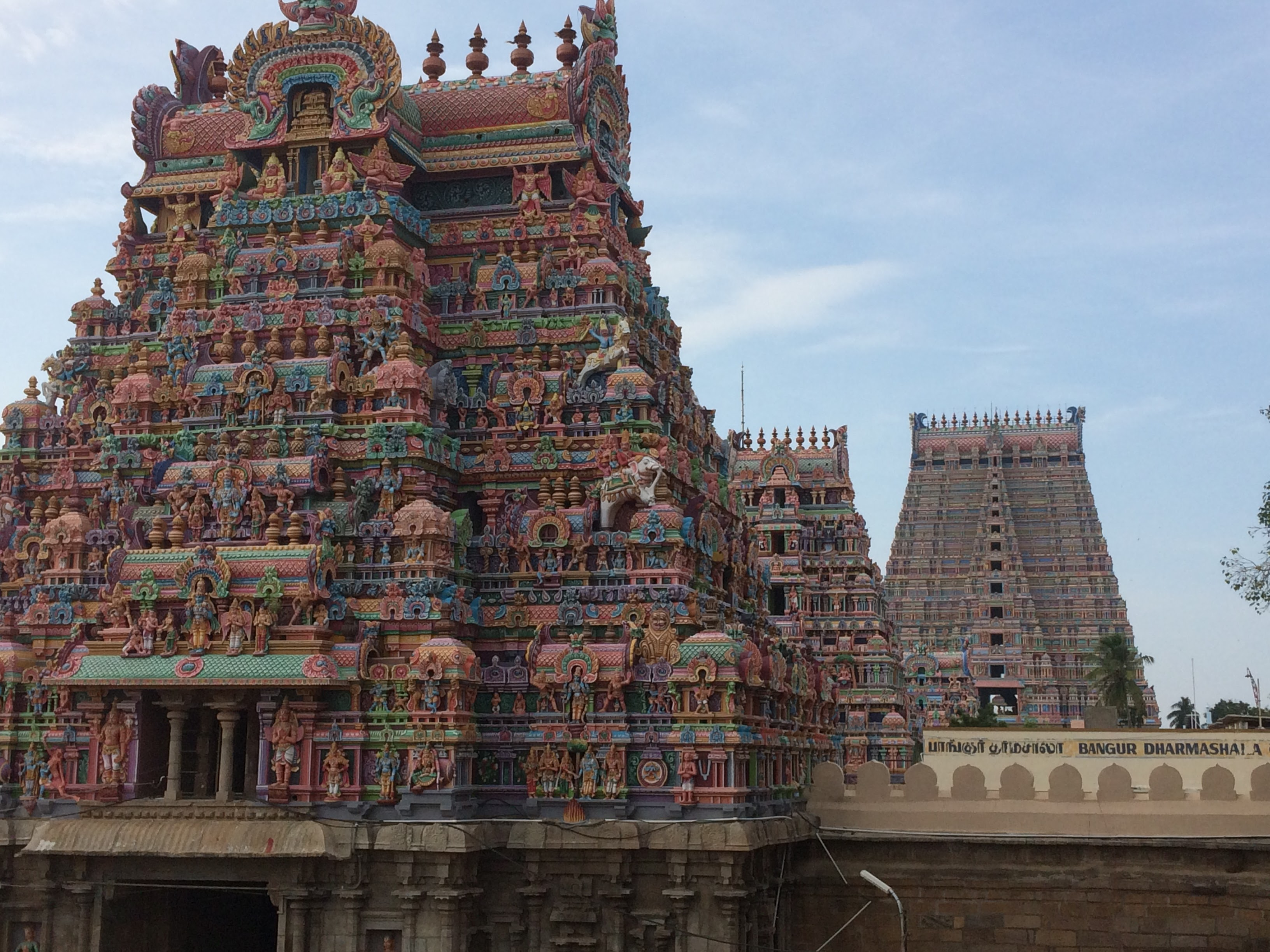 Overview of the gopurams available in srirangam